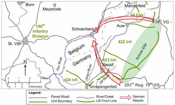 This sketch map shows the German plan of attack for the 18th Volksgrenadier Division for December 16th, 1944. Bleialf will be restored to the Reich. Other information Turned out pretty good for a non-cartographist.